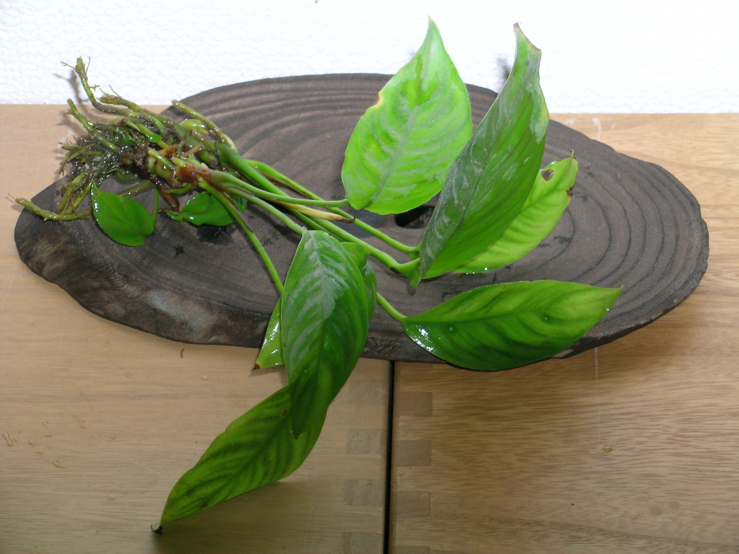 Anubias_heterophylla アフリカの水草の一種。IT is waterplant.It is used in aquarium. It is one's private property.Take a photograph in my home. photo:S.Tanaka